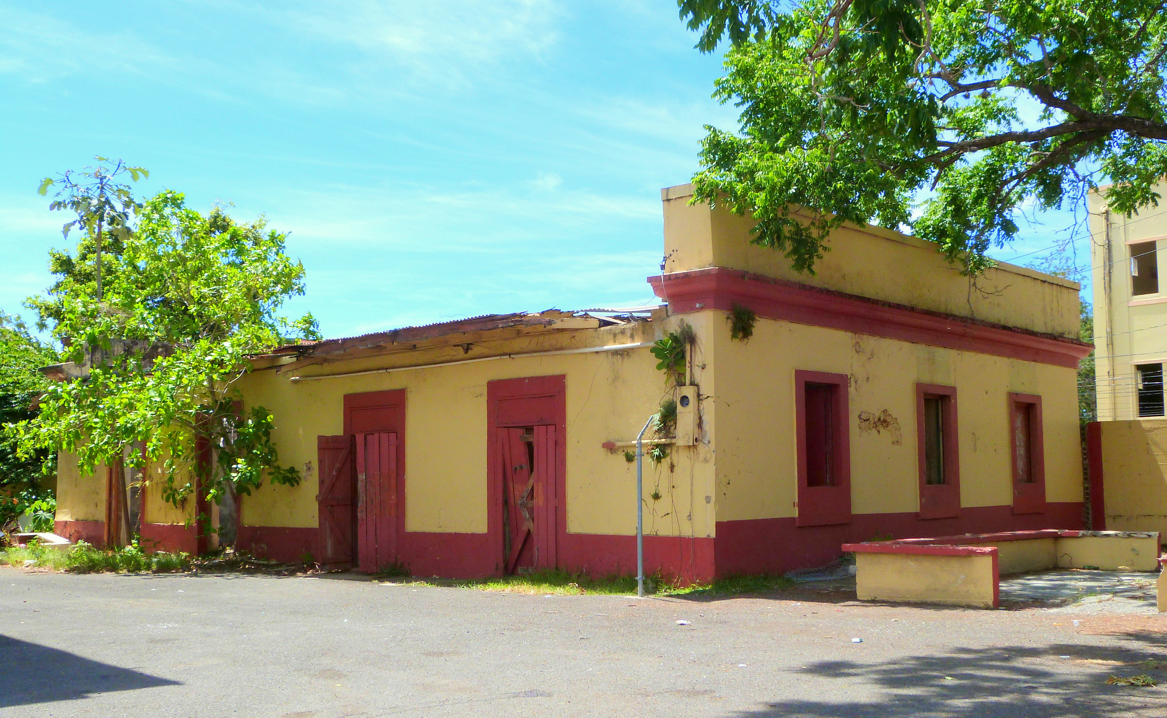 The sole remaining structure of the historic Fuerte de la Concepción, located on Calle Agustín Stahl in Aguadilla, Puerto Rico, is listed on the U.S. National Register of Historic Places.